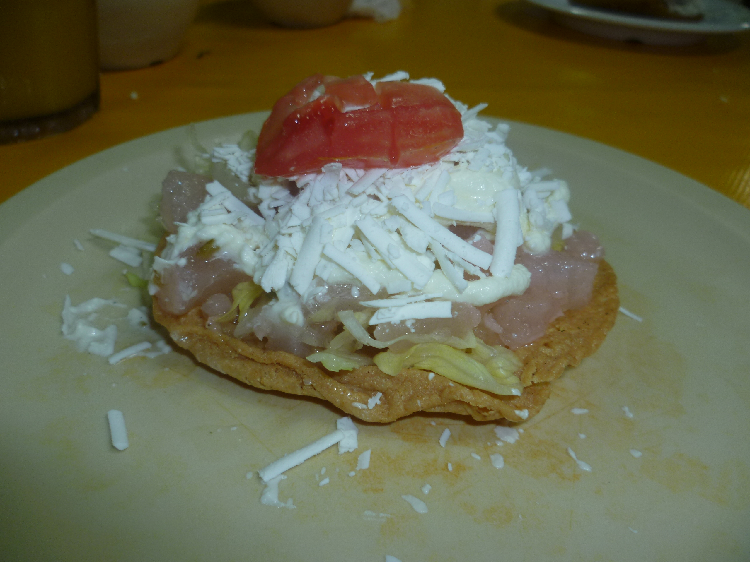 Picture of Tostada de Pata